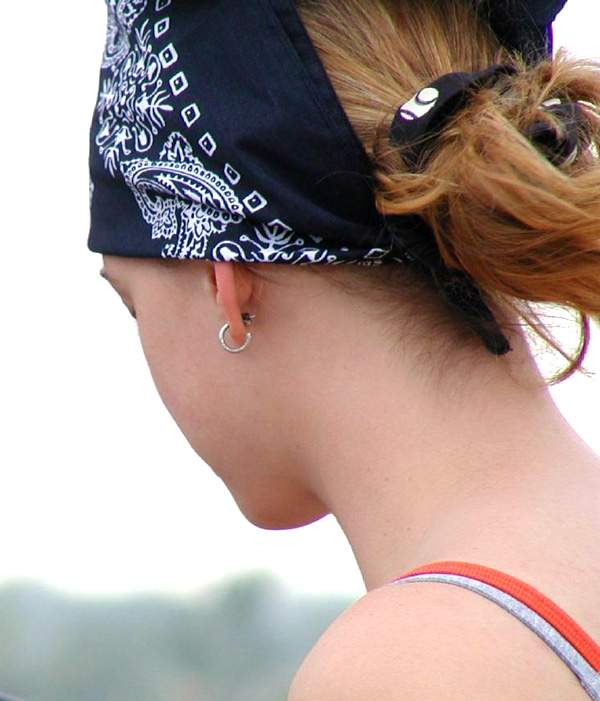 Ari's back